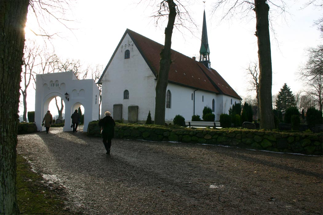 Ulsnis Church. The Wilhadi Church in Ulsnis.